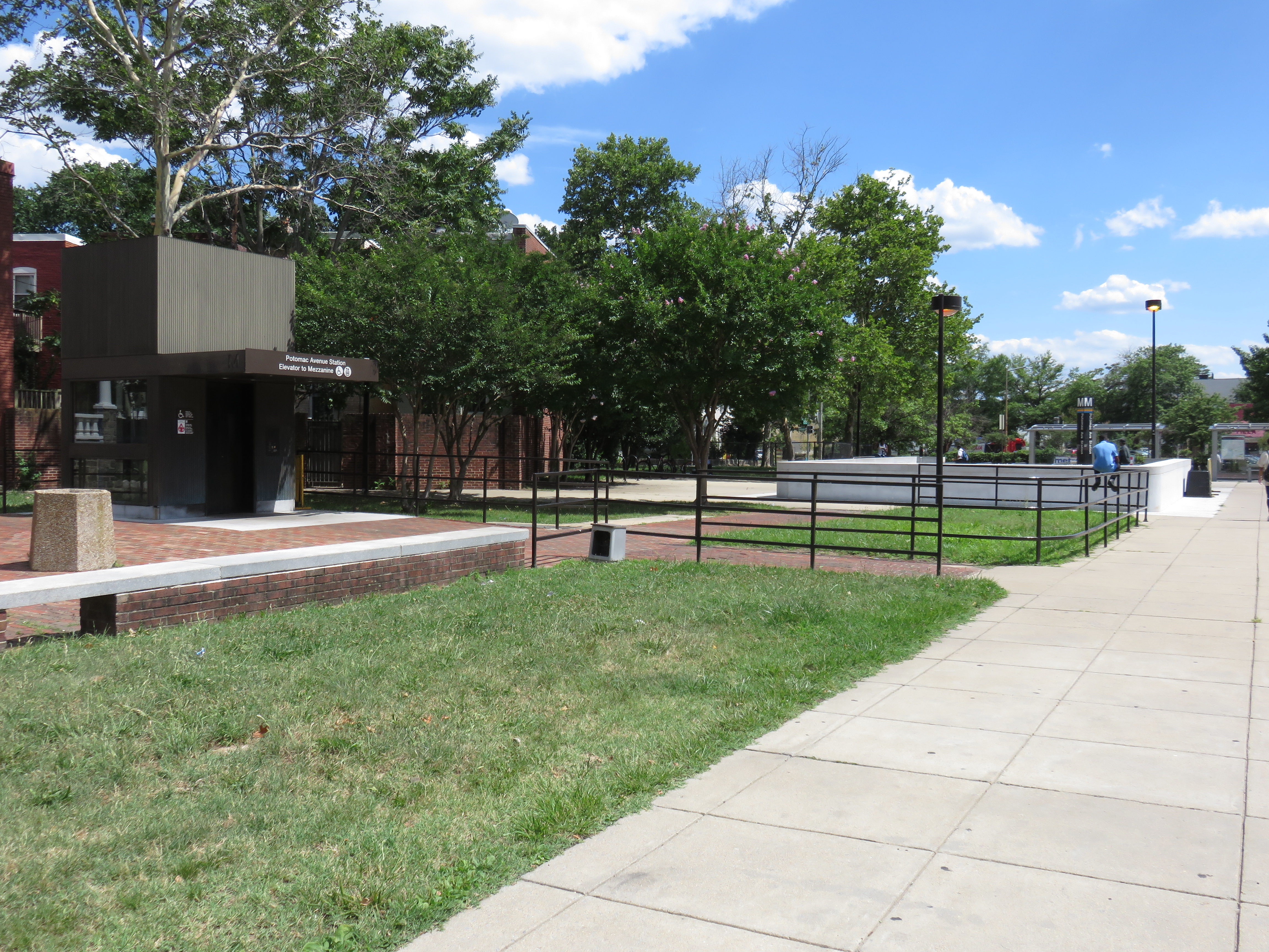 Headhouse of the Potomac Avenue Washington Metro station in 2017